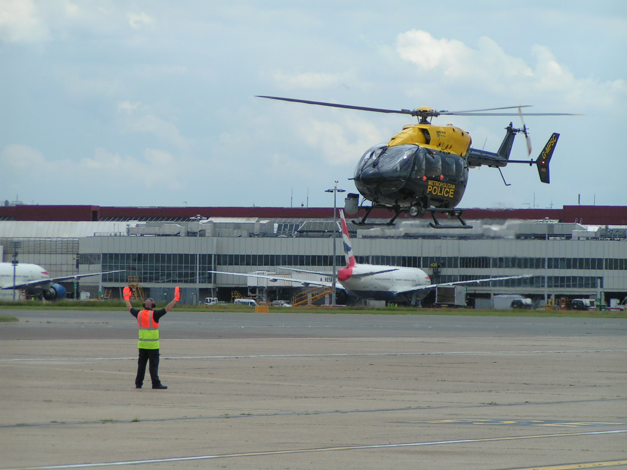 Follow the Marshallers Instructions